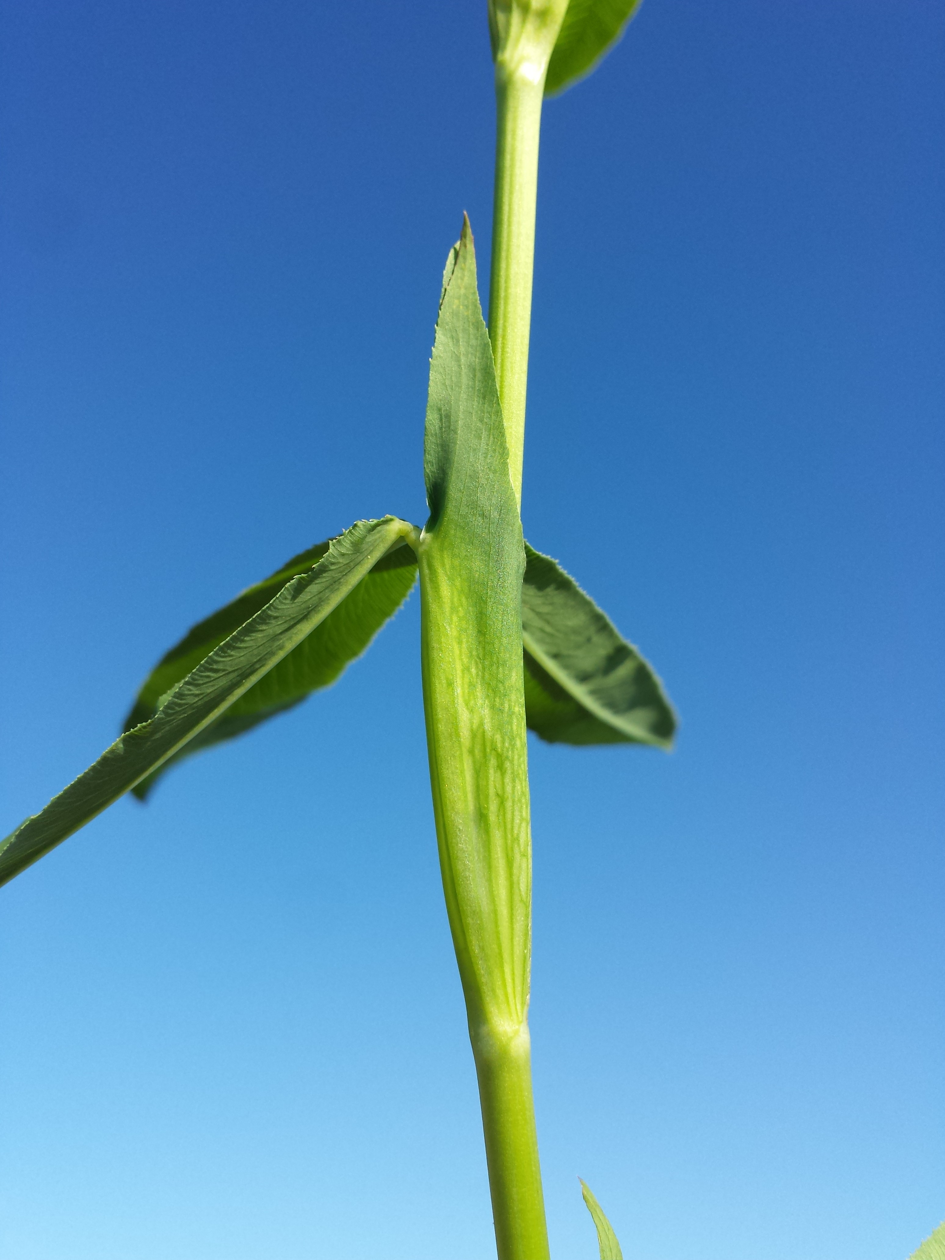 Stem with leaf and stipules Taxonym: Trifolium rubens ss Fischer et al. EfÖLS 2008 ISBN 978-3-85474-187-9 Location: Würfelberg near Bergau, district Hollabrunn, Lower Austria - ca. 275 m a.s.l. Habitat: border of a shrubbery